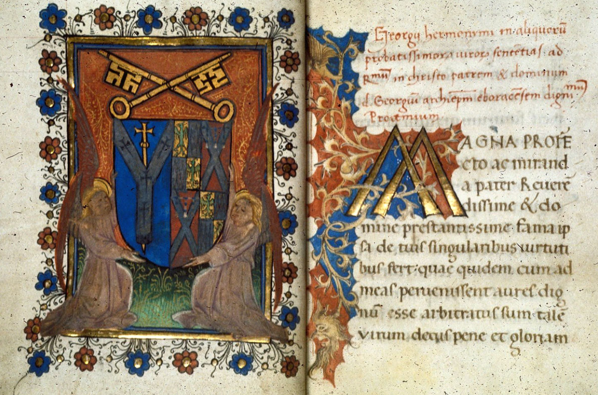 Arms of George Neville (c. 1432 – 8 June 1476), archbishop of York and Chancellor of England, was the youngest son of Richard Neville, 5th Earl of Salisbury, and Alice Montagu. He was the brother of Richard Neville, 16th Earl of Warwick, known as the "Kingmaker." British Library, MS Harl.3346 ff.4v-5, Collectio Sententiarum Aurearum Greek moral sayings translated into Latin by George Hermonymos, c.1475, dedicated to George Neville. The arms appear to be those of the See of Canterbury, not the See of York. The Montagu and Monthermer quarters are shown incorrectly, these are usually shown with Montagu in the 1st and 4th quarters, with Monthermer in the 2nd and 3rd quarters. The white/silver colouration has tarnished to almost black. Dedication: Ad ... in Christo patrem et dominum d(octorem) Georgiu(m) archiep(iscopu)m Eboracensis dignissimum ("to our father in Christ and lord doctor George, Archbishop of York most worthy"). The usual arrangement of these Neville quartering are